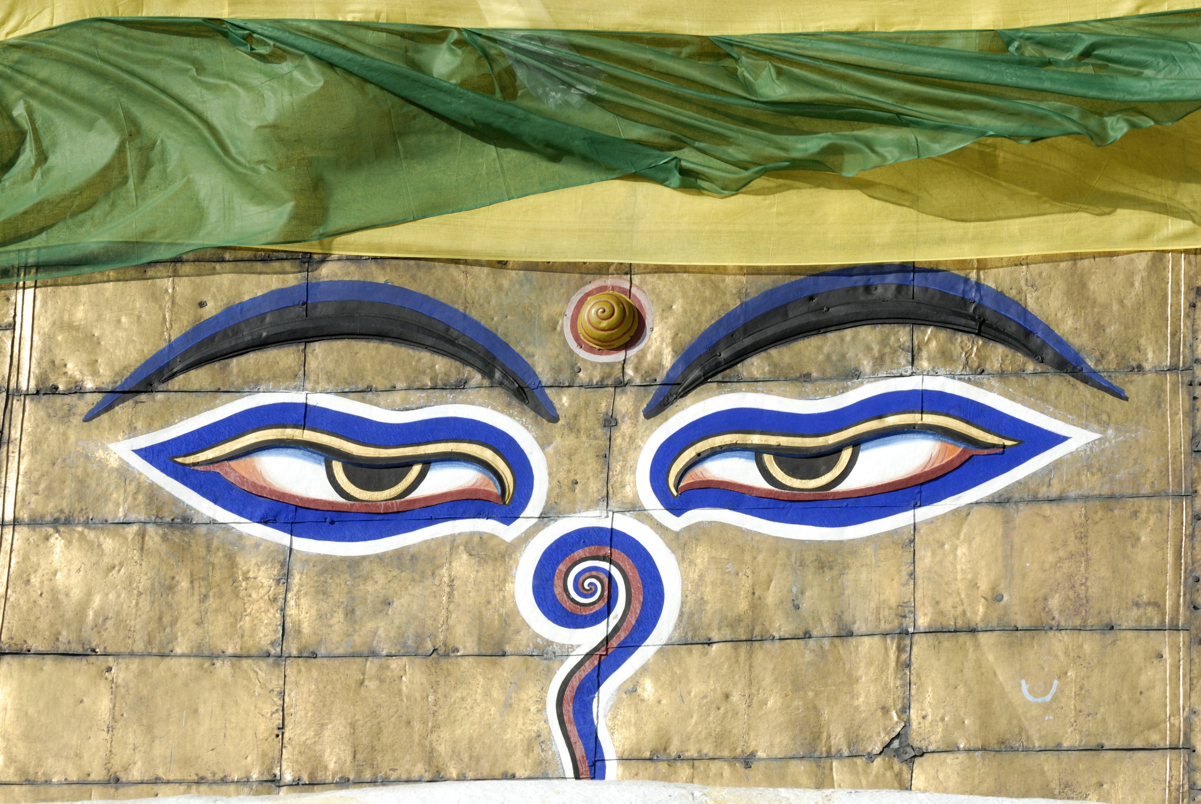 The Eyes of Lord Buddha Svayambhunath Kathmandu